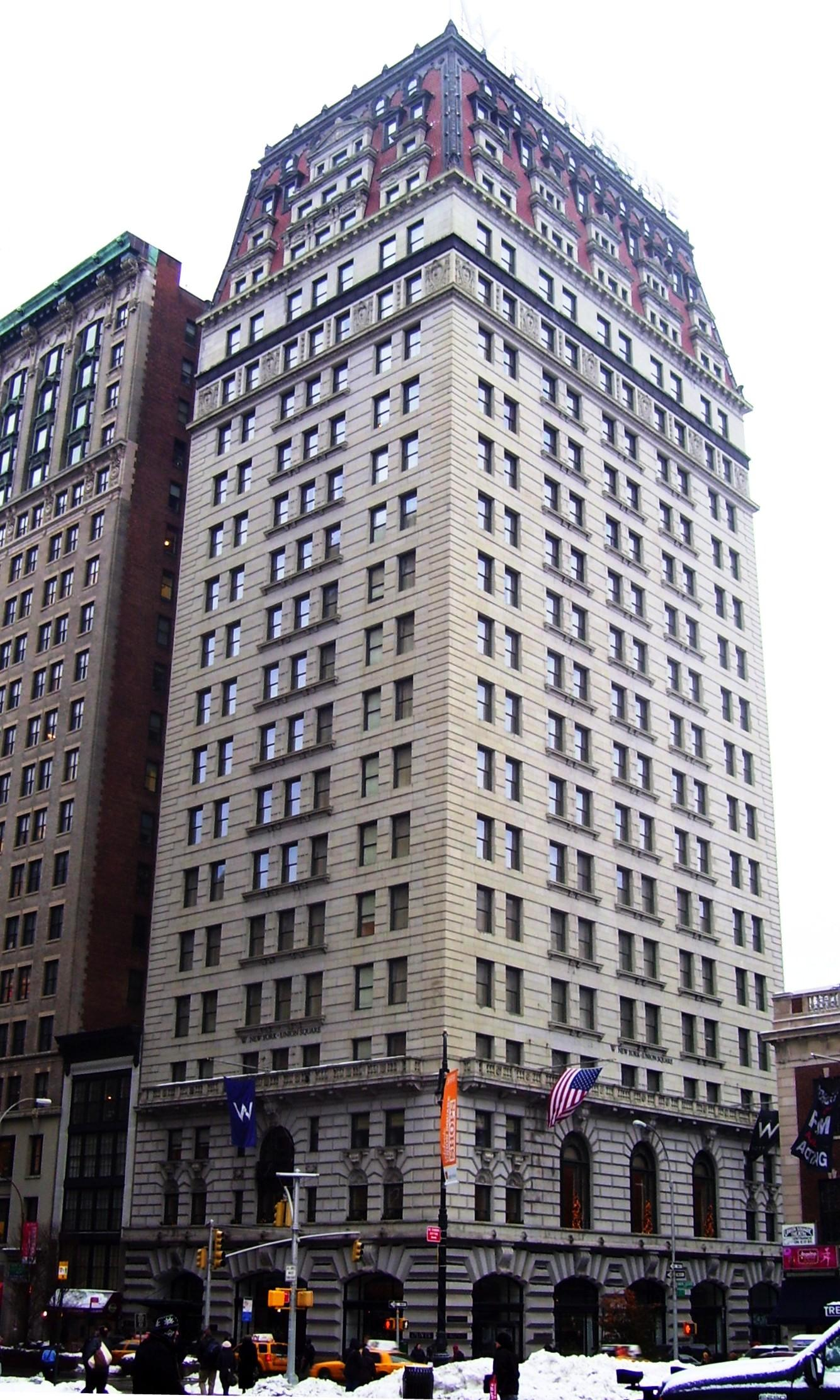 W Union Square Hotel on Park Avenue South and East 17th Street, Manhattan, New York City.